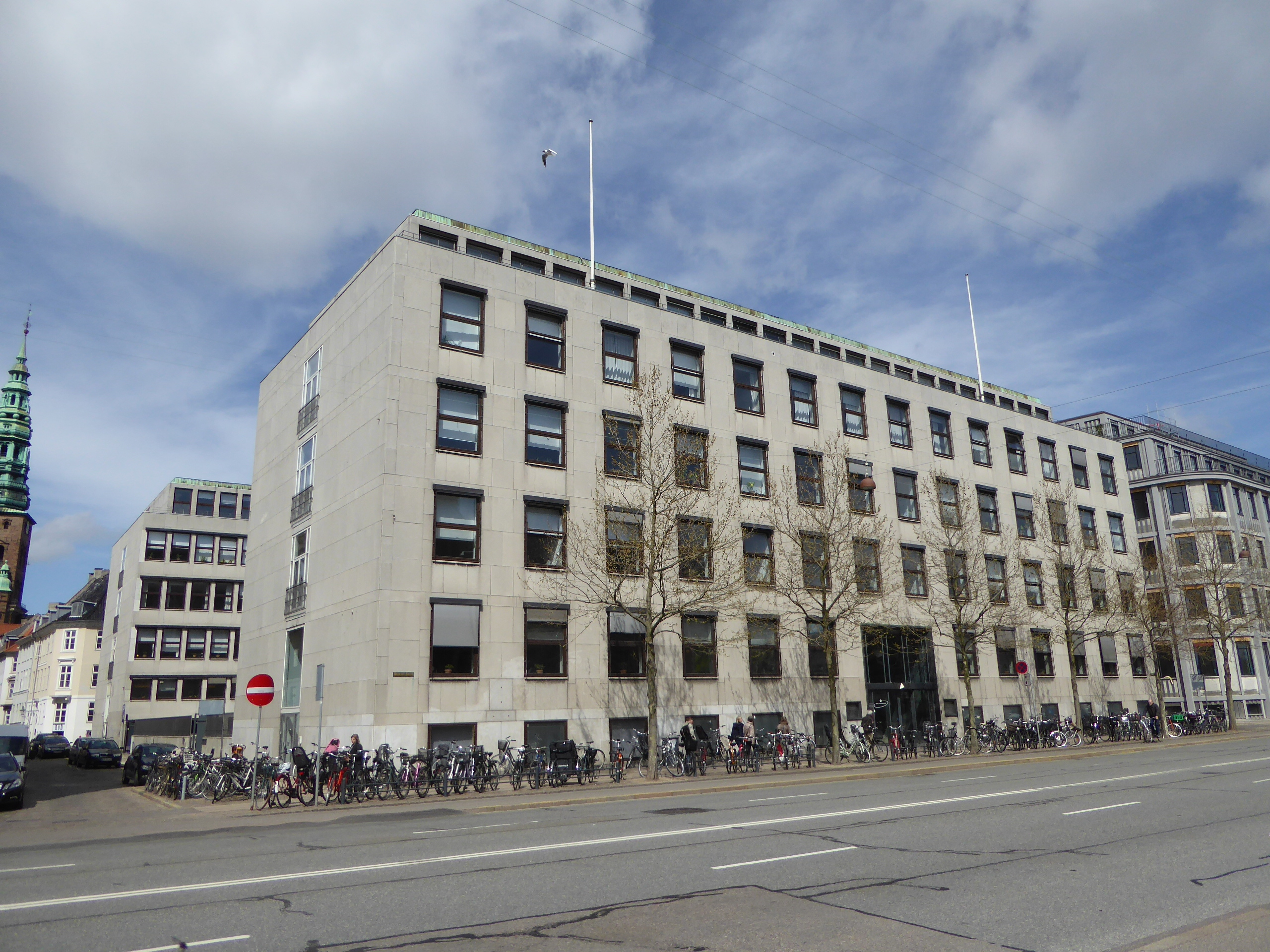 Børne- og Socialministeriet (the Ministry of Children and Social Affairs) at Holmens Kanal in Indre By in Copenhagen.